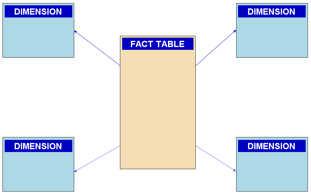 PNG image of a star schema